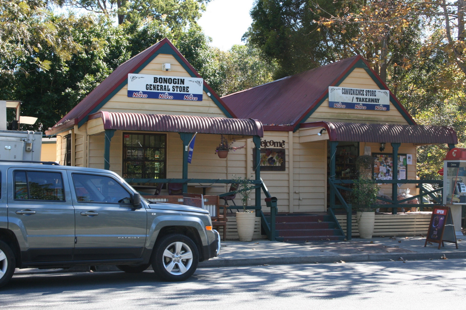 This is a photo of the the Bonogin General Store, Bonogin, Queensland, Australia